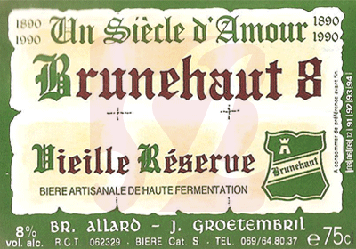 Beer label for commerical brewery.